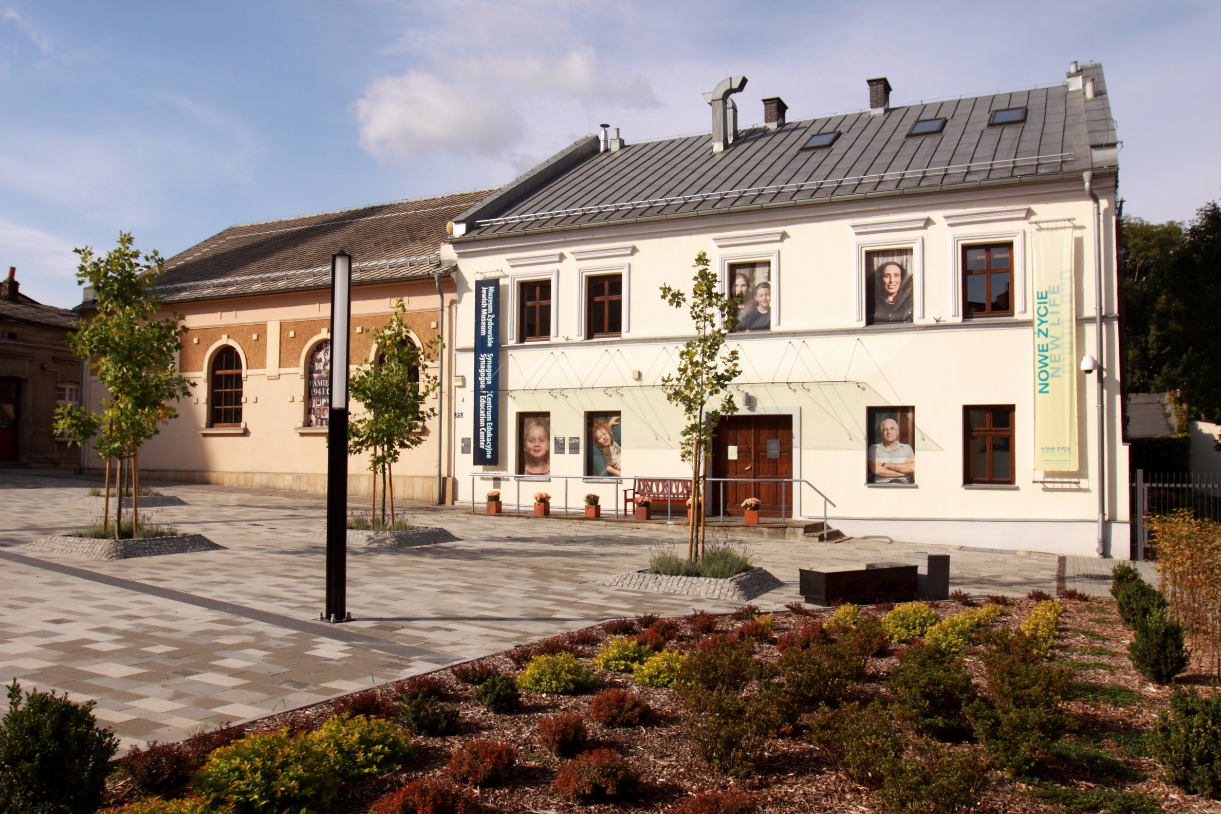 Auschwitz Jewish Center